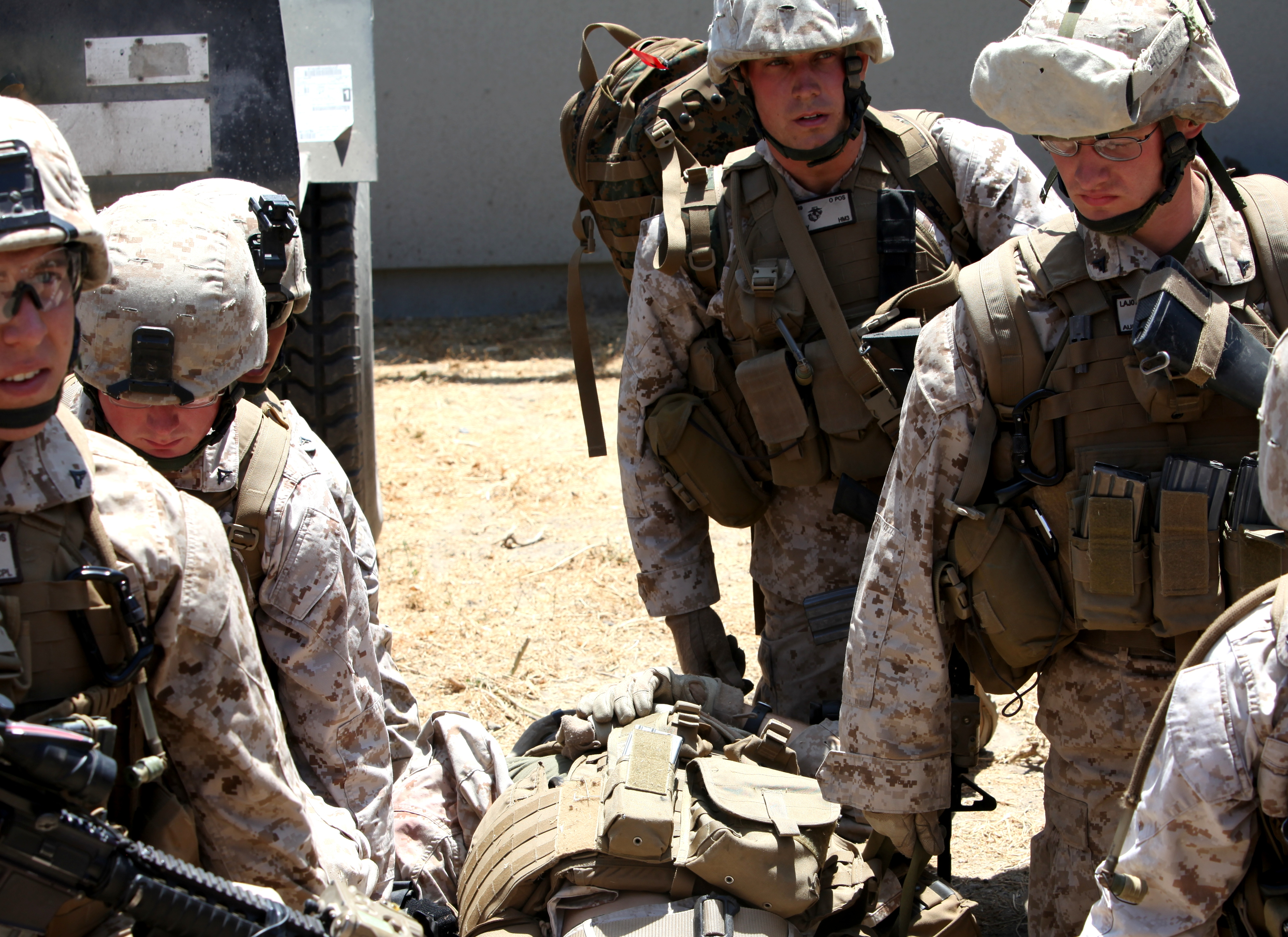 Marines from Company L, 3rd Battalion, 25th Marine Regiment, 4th Marine Division prepare to move a simulated casualty to a helicopter at Camp Pendleton, Calif., July 27, 2010. The Marines called in a helicopter to move the mock casualties to a medical facility after a simulated suicide bombing.